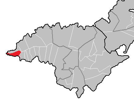 Locator maps of Amanave village.